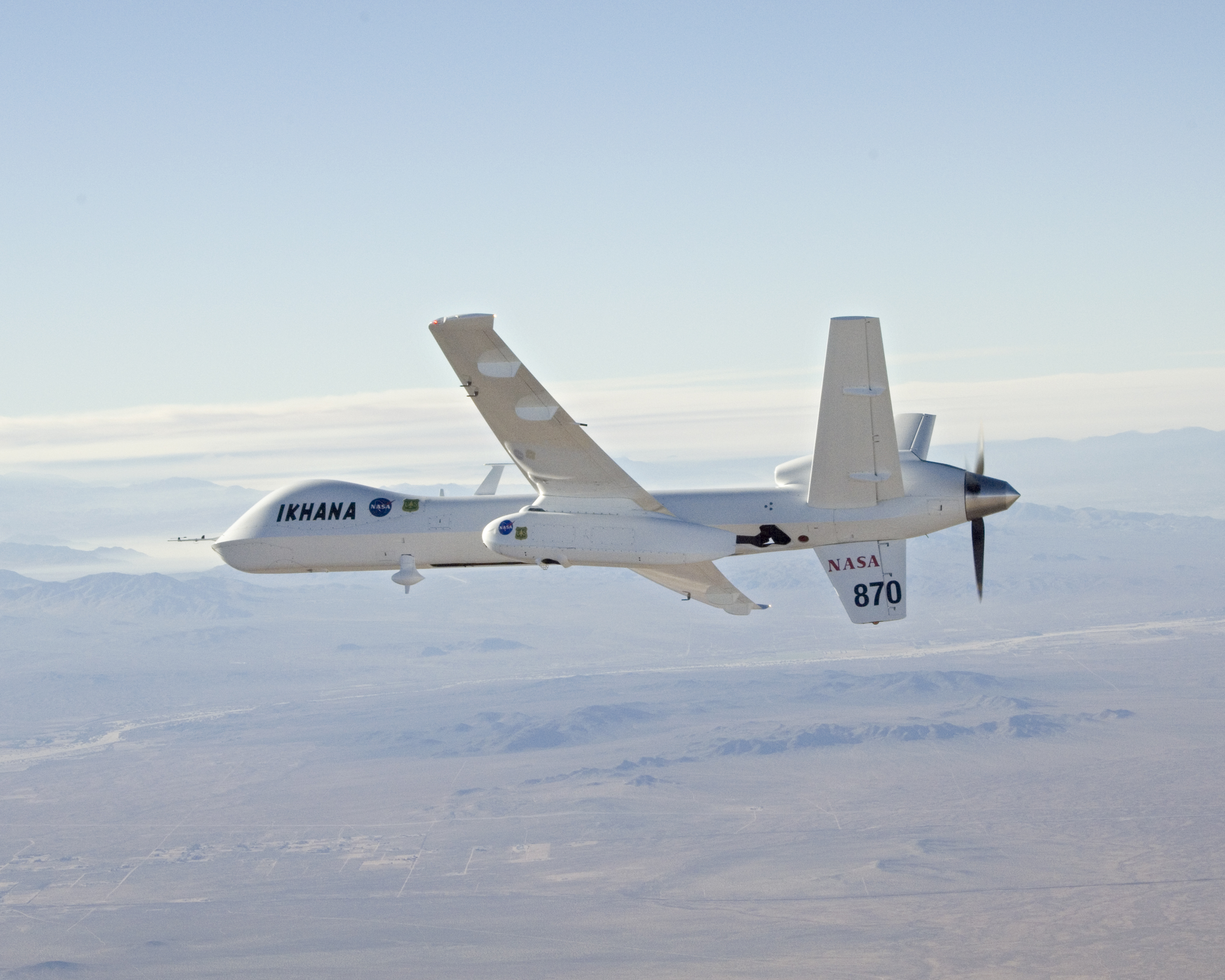 With smoke from the Lake Arrowhead area fires streaming in the background, NASA's Ikhana unmanned aircraft heads out on a Southern California wildfires imaging mission.